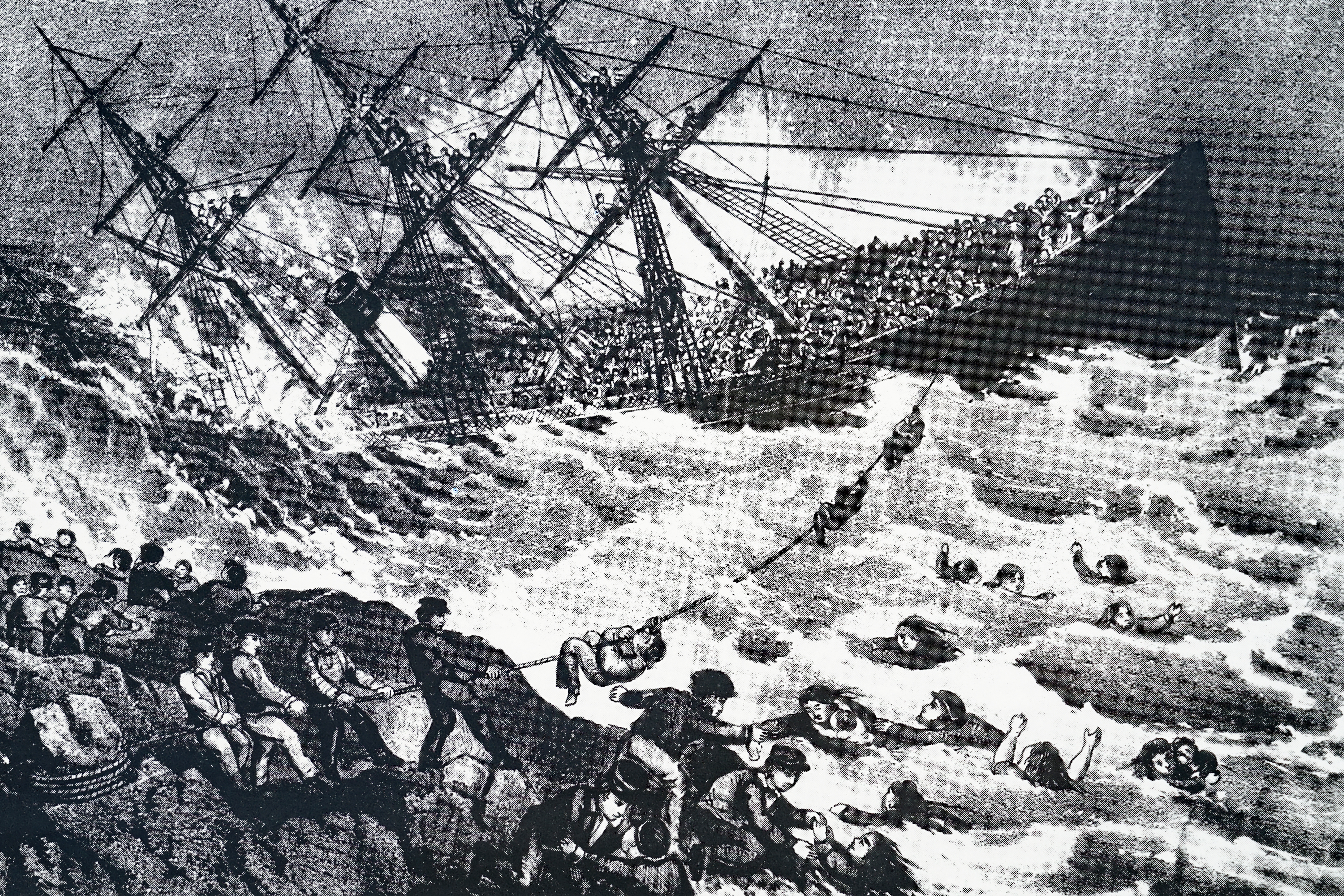 S.S. Atlantic was a transatlantic ocean liner owned by the White Star Line that operated between Liverpool, England, and New York City. On the ship's 19th voyage, 1 April 1873, it ran aground and sank near Terance Bay, Nova Scotia, killing at least 535 people. It remained the deadliest civilian maritime disaster in the Northern Atlantic until the sinking of SS La Bourgogne on 2 July 1898 and the greatest disaster for the White Star Line prior to the loss of Titanic 39 years later.